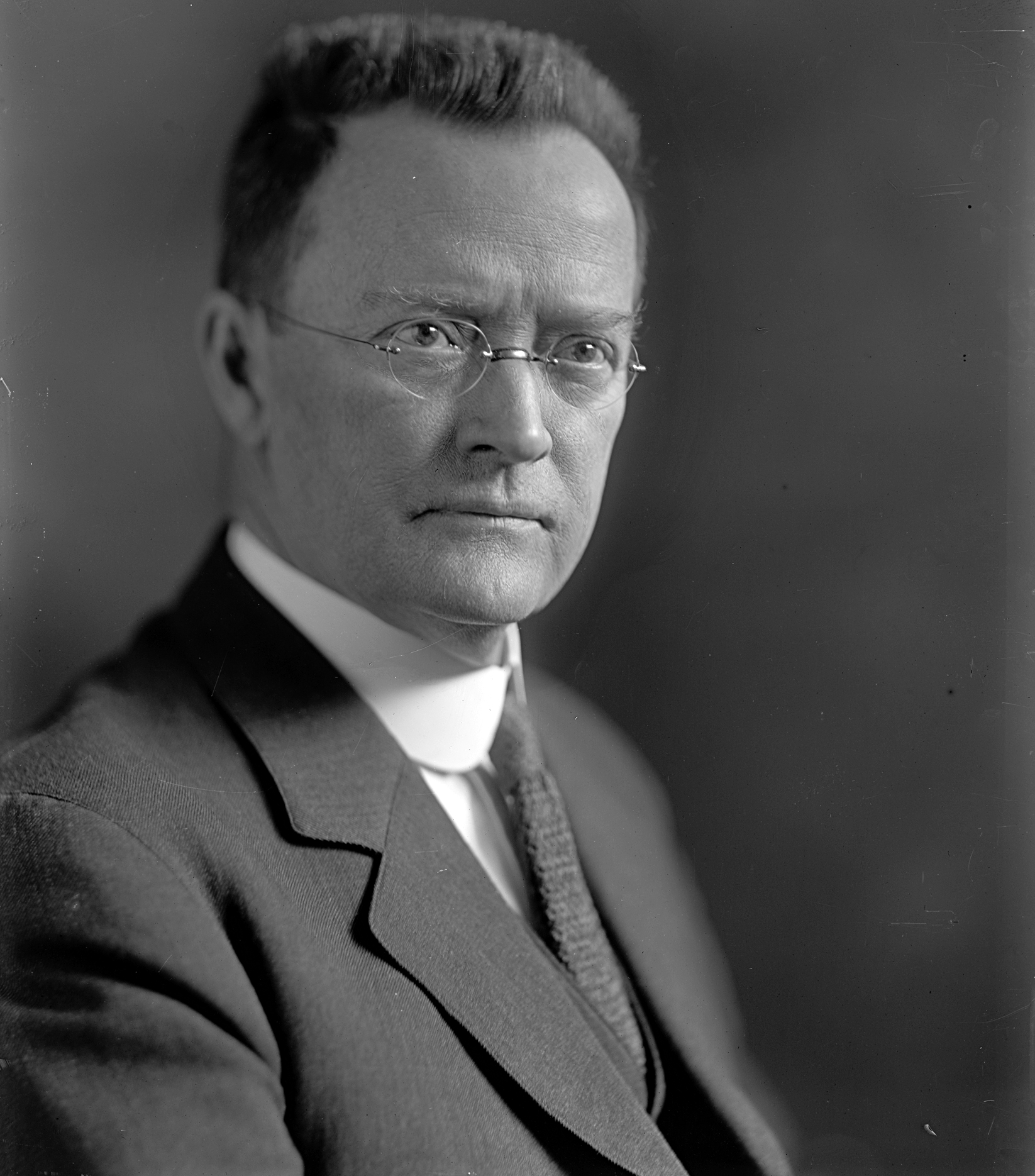 Ernest W. Roberts, US Representative from Massachusetts